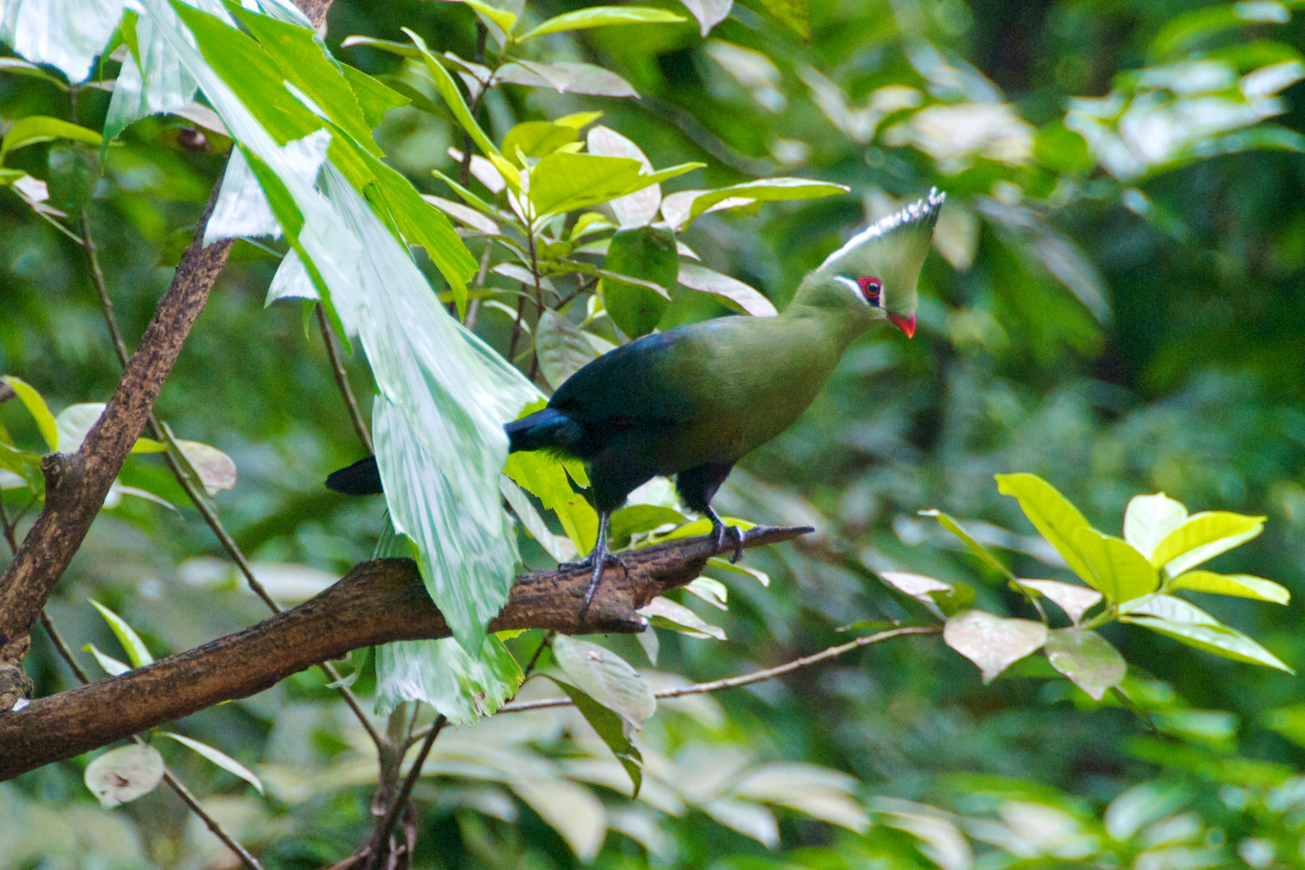 A captive Livingstone's Turaco hiding in the trees at Singapore's Jurong Bird Park. The fine bill and facial stripes are characteristic of the particular race.